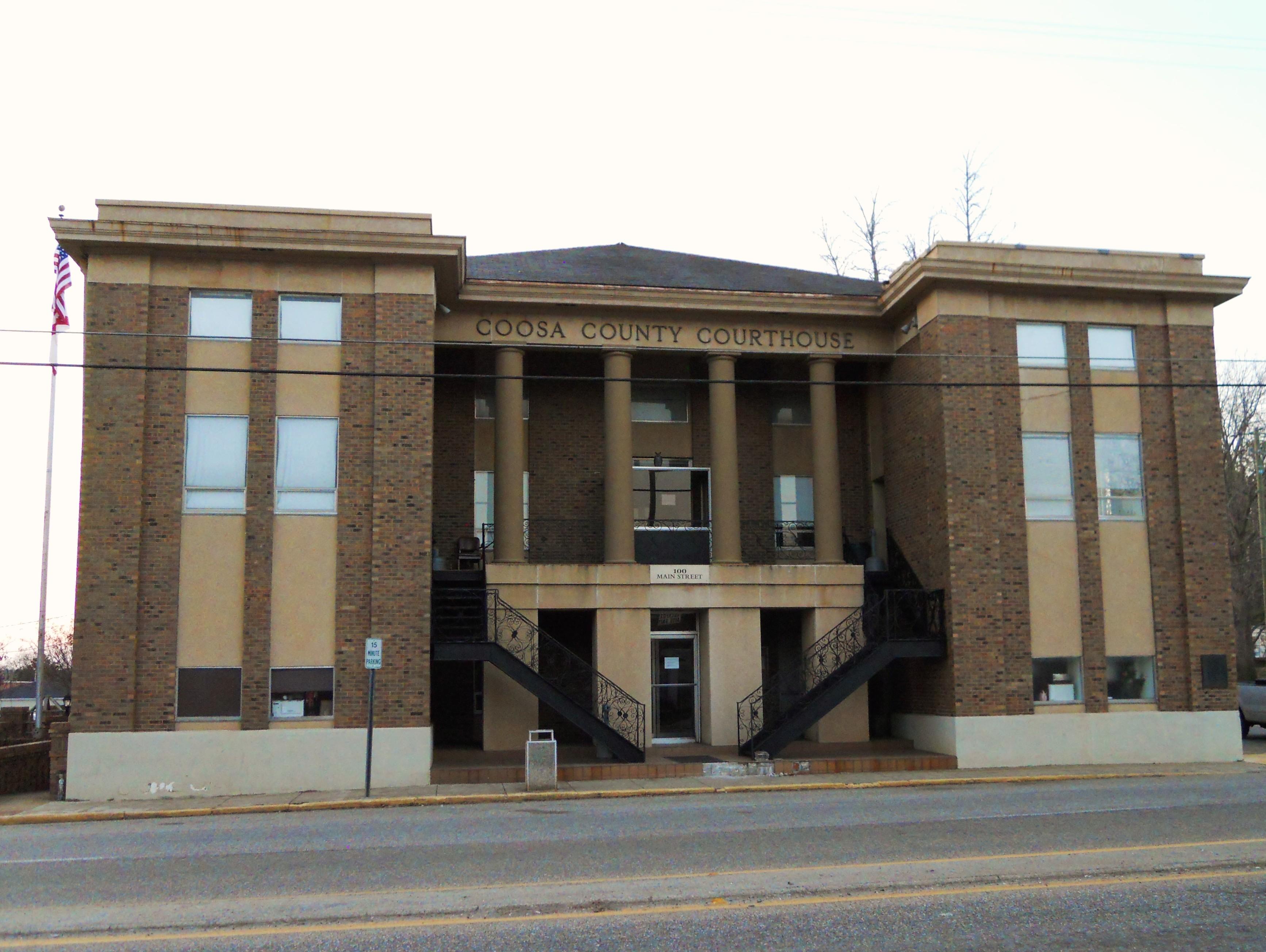 This is a photograph of the Coosa County Courthouse located in Rockford, Alabama.